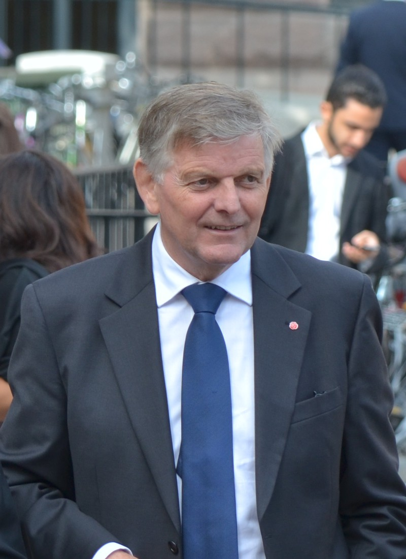 Anders Karlsson, member of the Riksdag for the Social Democratic Party.